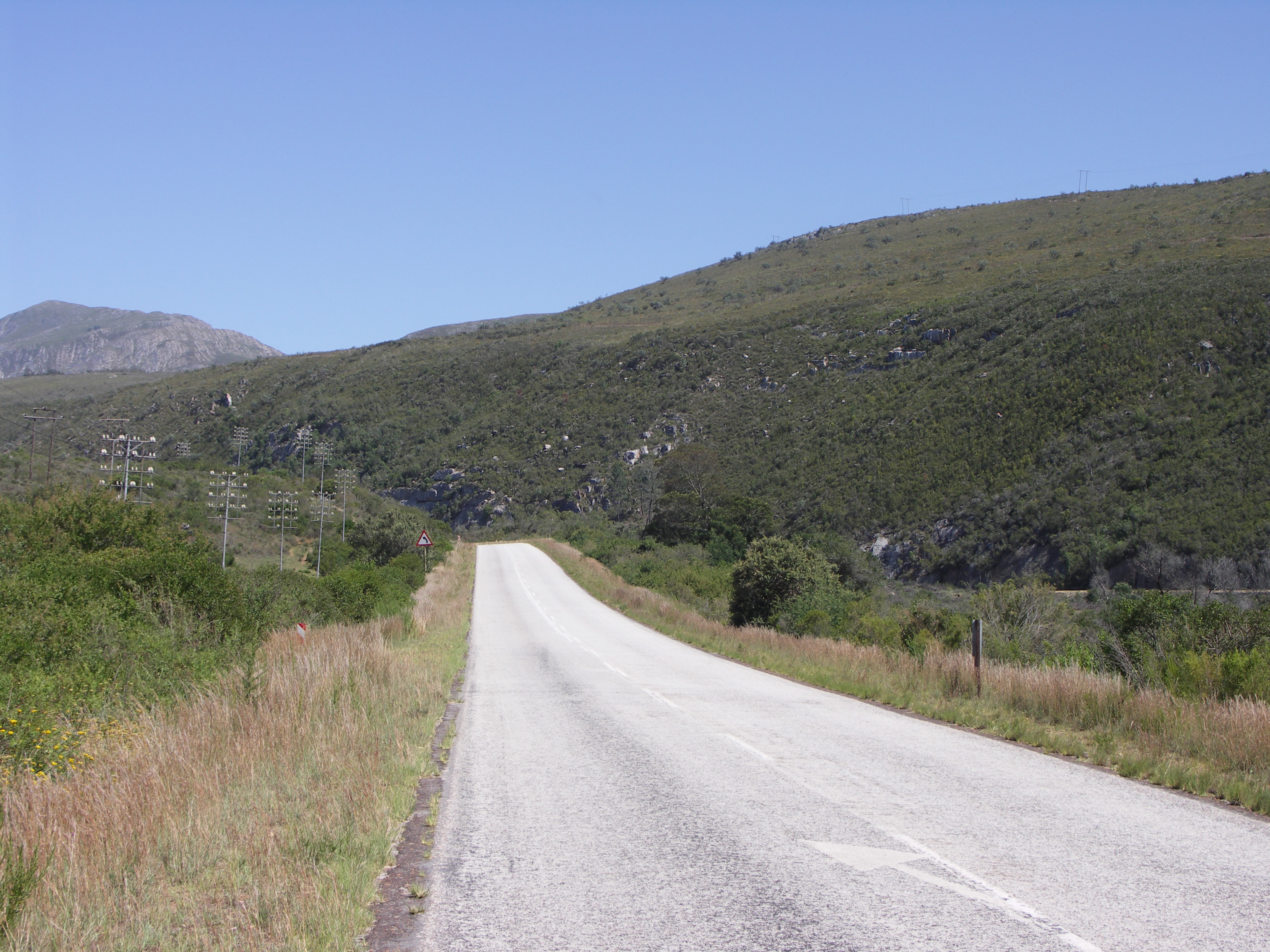 The R62 road in the Eastern Cape of South Africa, just outside Kareedouw